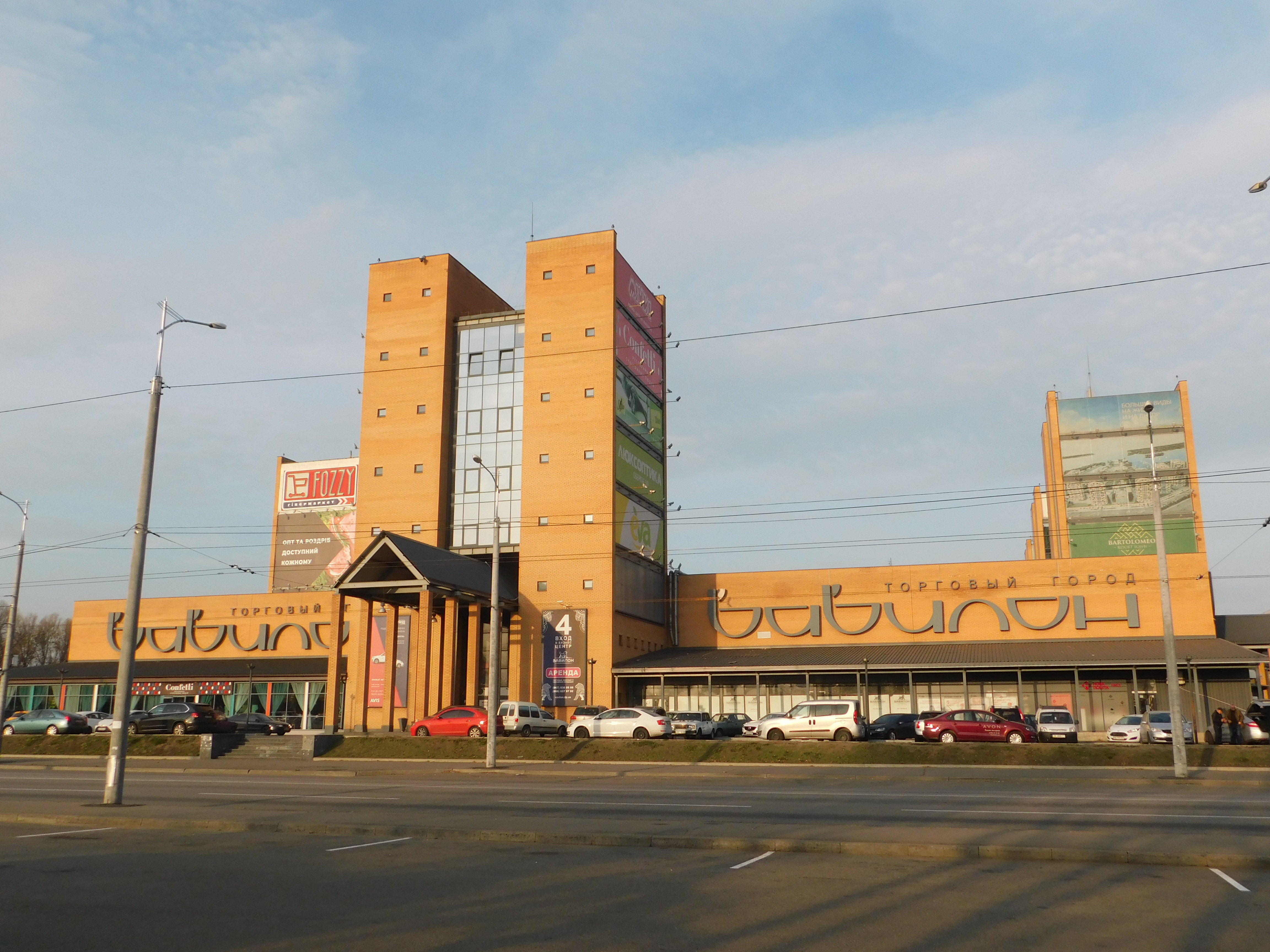 Vavilon shopping center in Dnipro, Ukraine